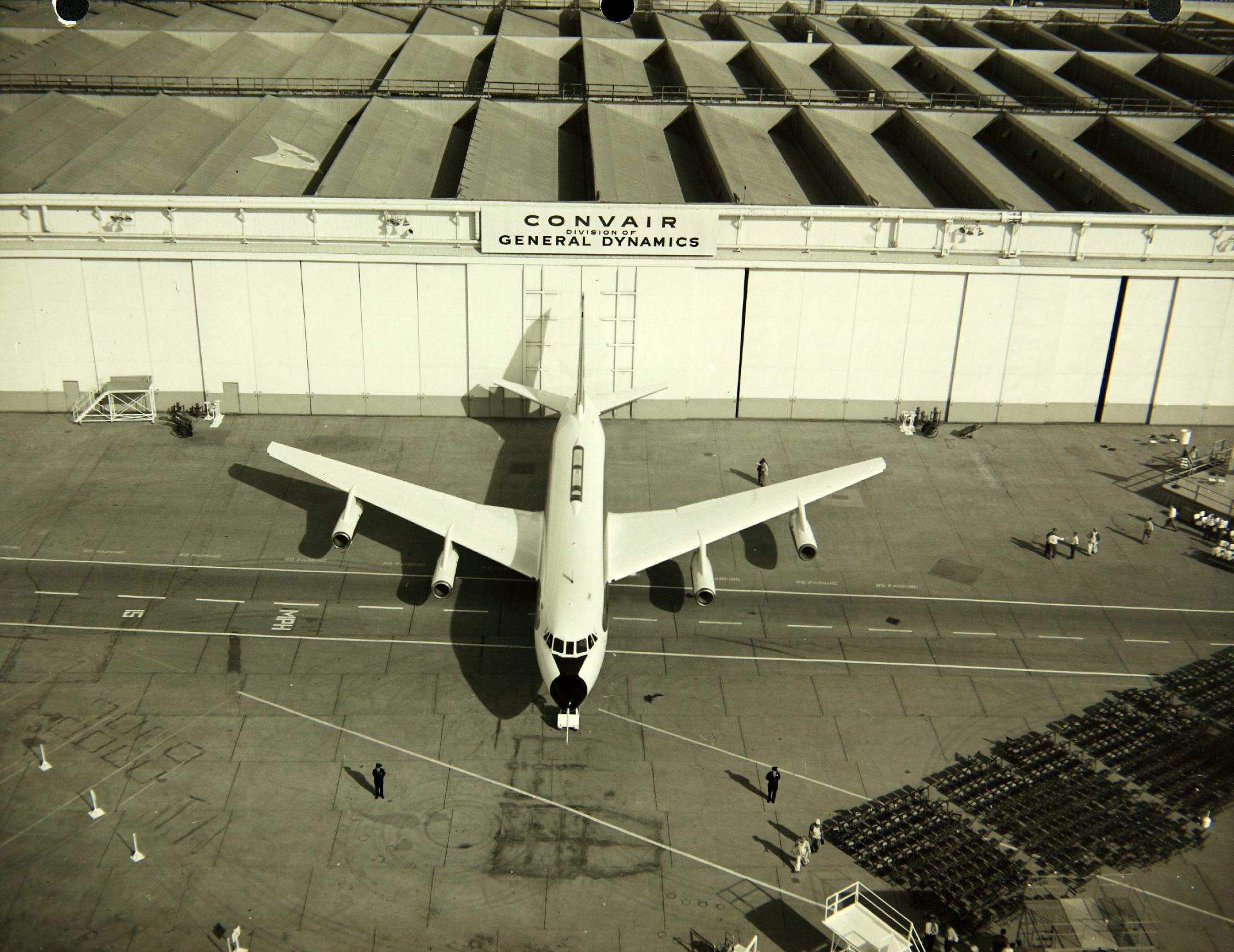 Catalog #: 01_00083017 Title: Convair , 880 Corporation Name: Convair Additional Information: USA Designation: 880 Tags: Convair , 880 Repository: San Diego Air and Space Museum Archive